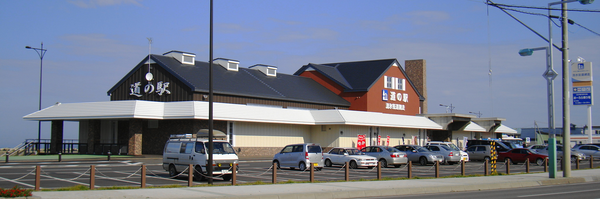 Roadside Station "Ryūhyō-kaidō Abashiri"